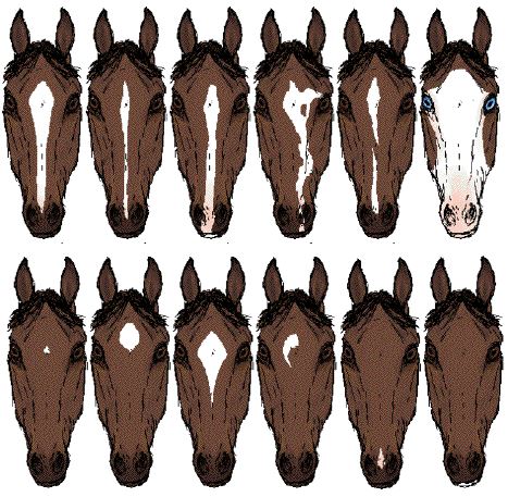 Modified version of Horsemarkings.png with fewer examples